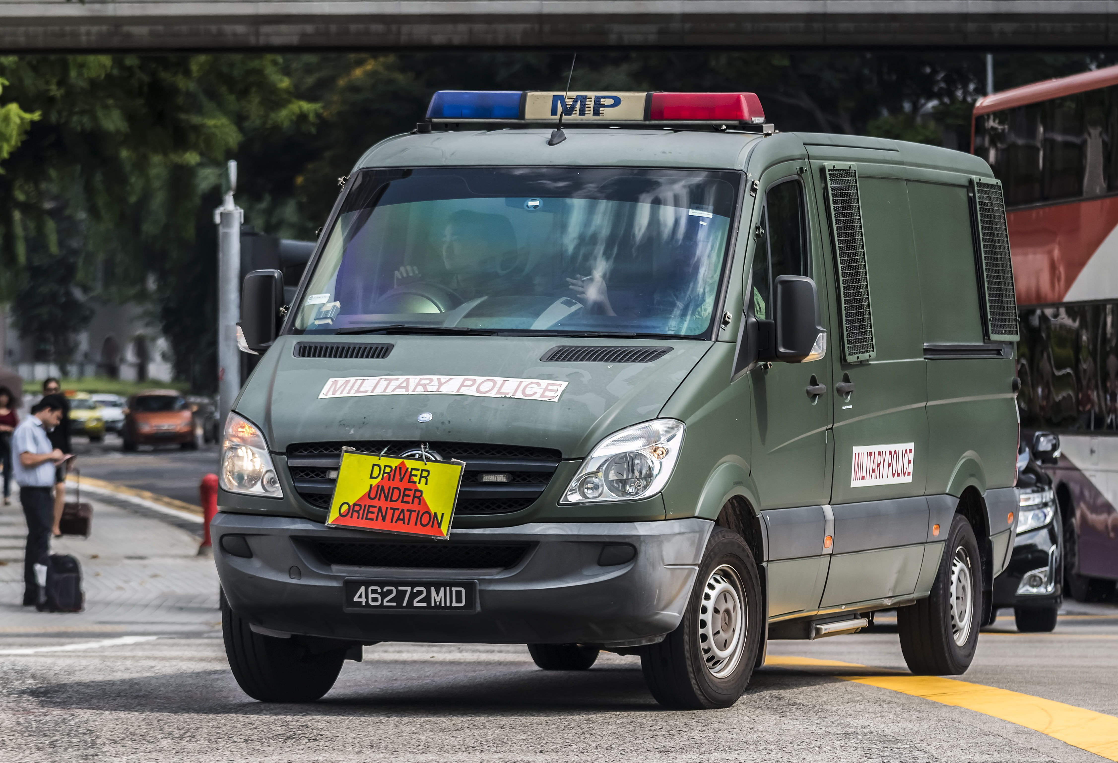 SG 46272MID